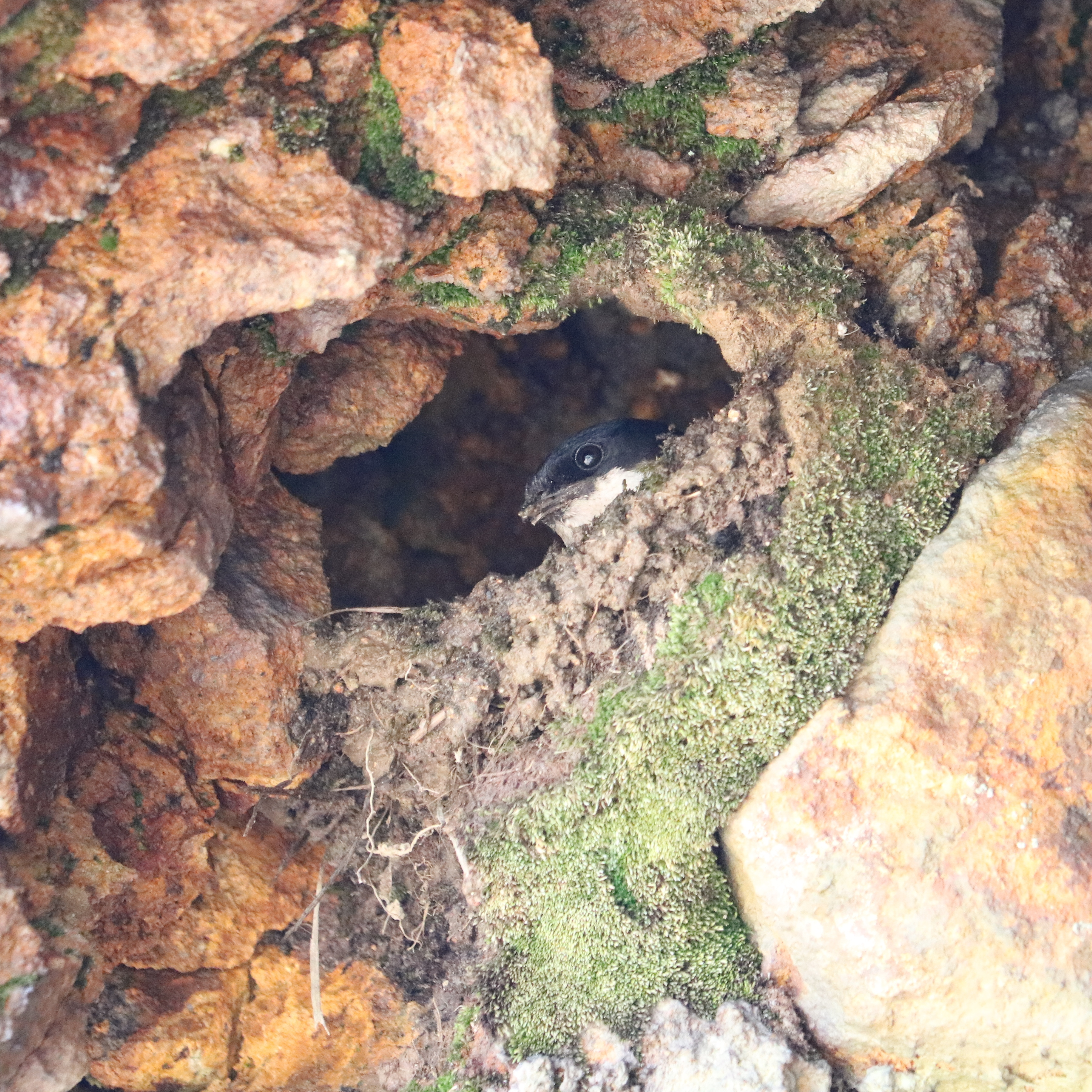 Delichon urbica dasypus making nest in Mount Yake, Hida Mountains, Matsumoto, Nagano Prefecture, Japan.